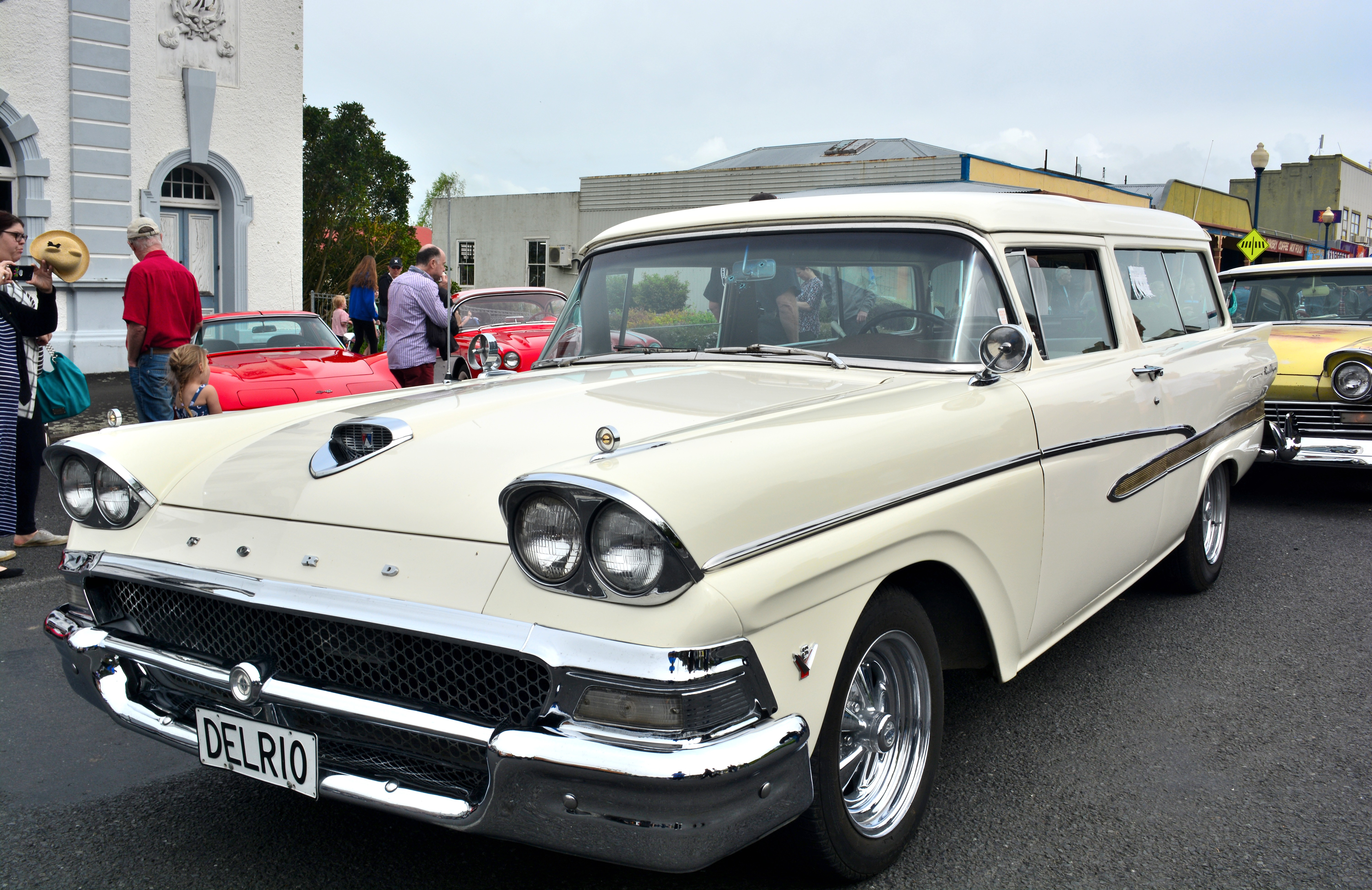 1958 Ford Del Rio Ranch Wagon. Te Aroha, Waikato, New Zealand